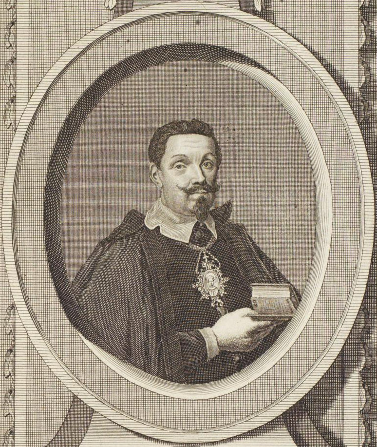 Engraved portrait of Jacob Fabricius (Mediziner), in: in: Monumenta inedita rerum Germanicarum praecipue Cimbriacarum et Megapolensium : quibus varia antiquitatum, historiarum, legum iuriumque Germaniae, speciatim Holsatiae et Megapoleos vicinarumque regionum argumenta illustrantur, supplentur et stabiliuntur ; cum tabulis aeri incisis / e codicibus ... studuit ... et cum praefatione instruxit Ernestus Joachimus de Westphalen .. Band 3, Lipsiae: Martin 1741